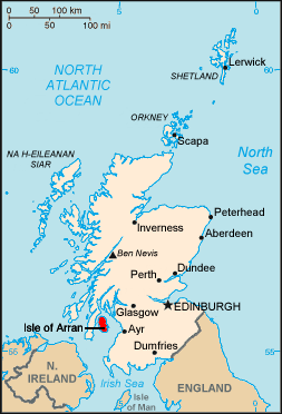 Map of Scotland indicating the Isle of Arran.